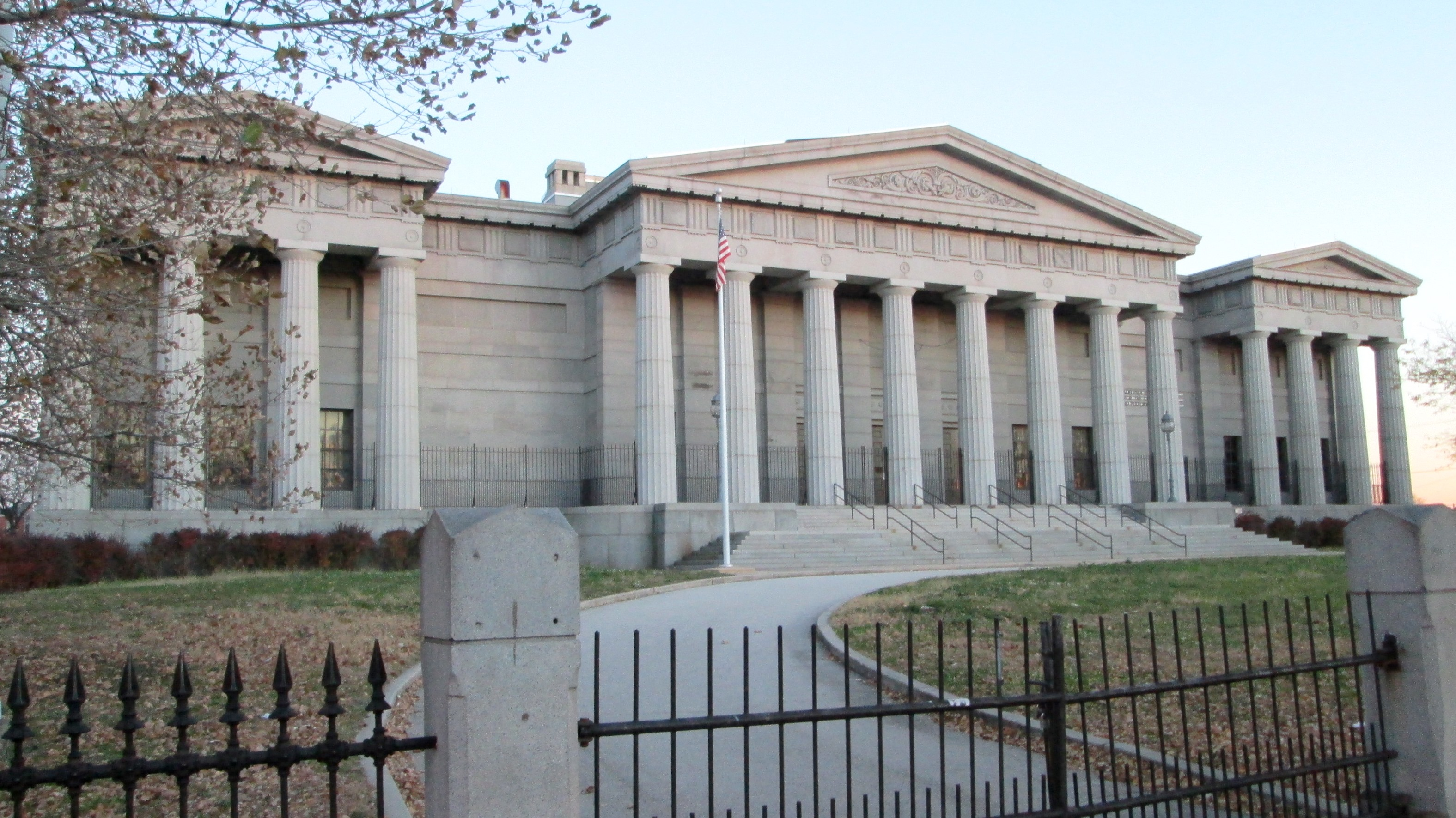 The Ridgeway Library building, at 900 South Broad Street between Christian and Carpenter Streets, was constructed in 1873-78, and was designed by Addison Hutton in the Greek Revival style. The library was a bequest to the Library Company of Philadelphia by Dr. James Rush to honor his wife, Phoebe Ann Ridgeway. The Library Company left in 1965, to a new building on Locust Street between South 13th and 14th Streets, also called the Ridgeway Library. Since 1997, the restored building, with a large addition in the rear, has been occupied by the Philadelphia High School for the Creative and Performing Arts.